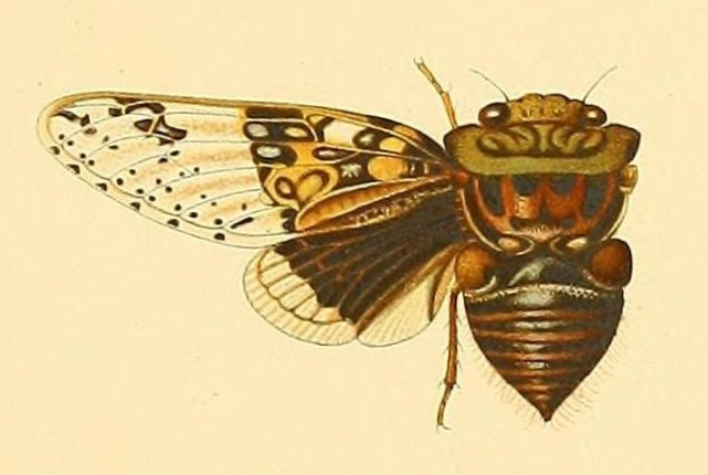 Pycna caelestia Distant, 1904